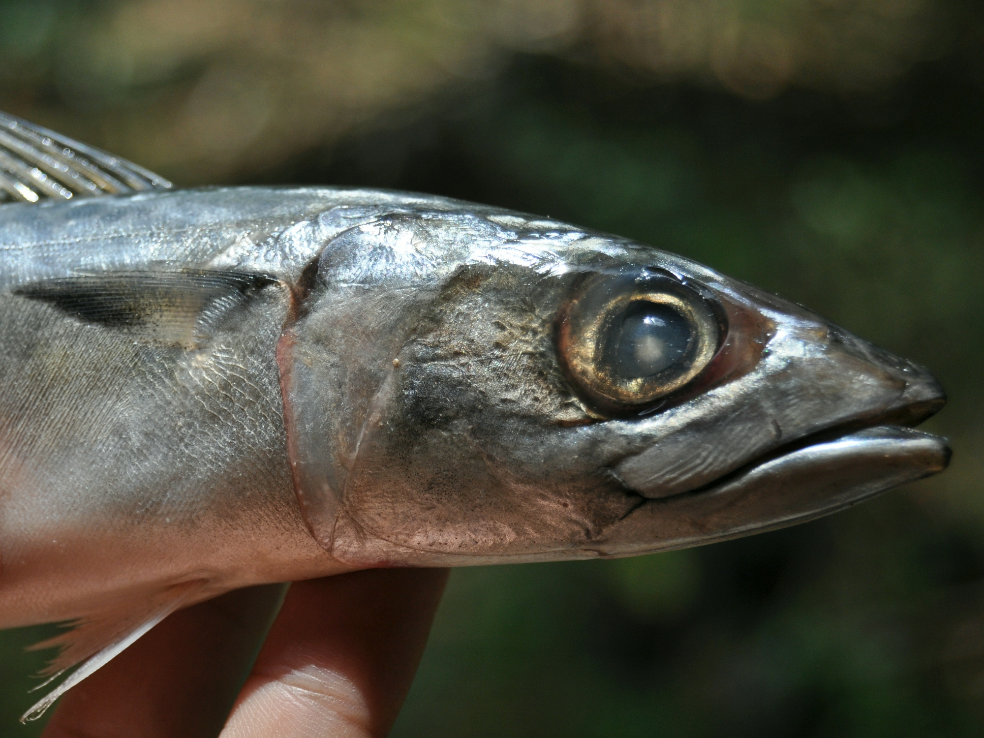 Pacific Chub Mackerel, Scomber japonicus, 225mm FL. From local market in Bogor, West Java, Indonesia. Head region, HL 57mm.